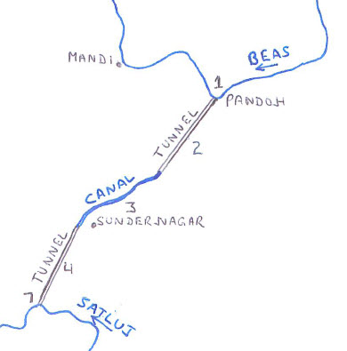 Plan View of the beas satluj link project showing the two tunnels and a hydel channel in between.